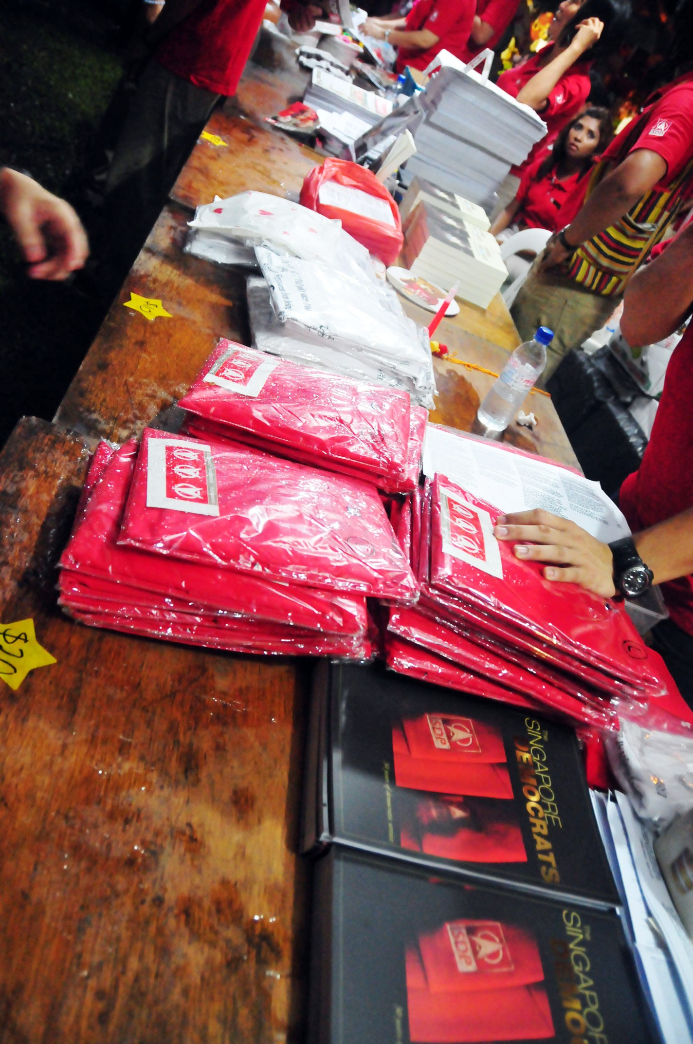 T-shirts and other memorabilia sold during the Singapore Democratic Party's political rally in Bukit Panjang, Singapore, for the Singaporean general election, 2011.